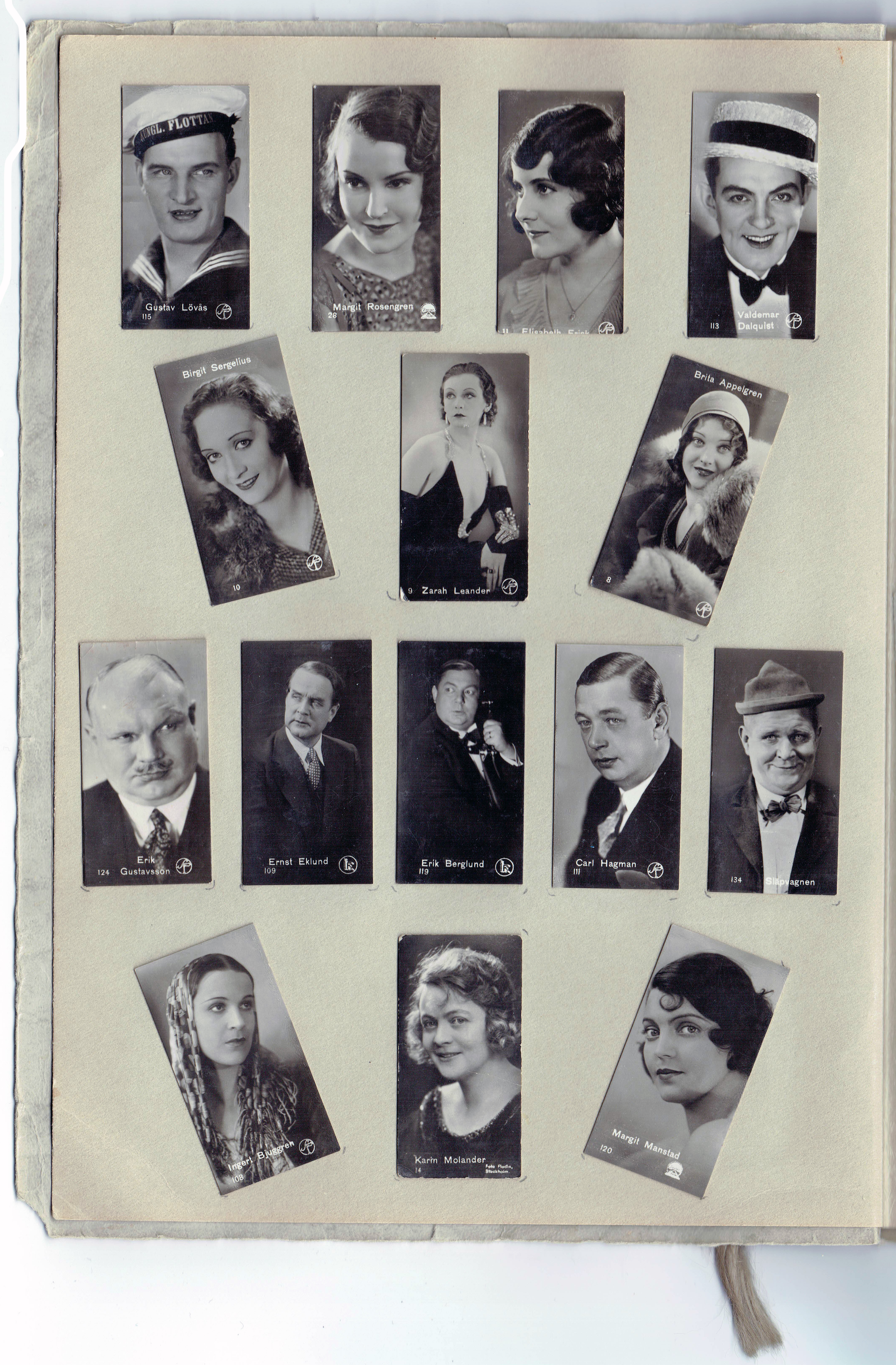 Trading cards depicting Swedish film stars from the 1930s.